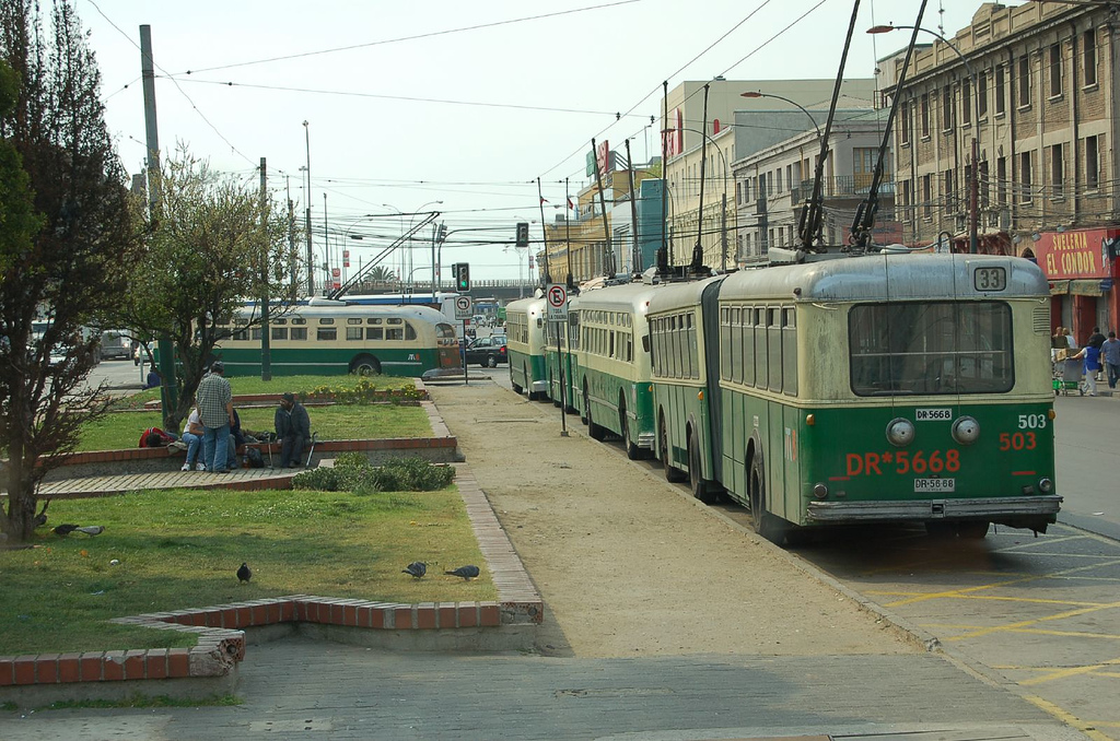 Trolleybuses in Valparaíso, Chile, at the Barón terminus of the Valparaíso trolleybus system. Most of these are Pullman-Standard trolleybuses, but the one closest to the camera is ex-Zürich, Switzerland trolleybus (No. 503, ex-129) built by FBW.